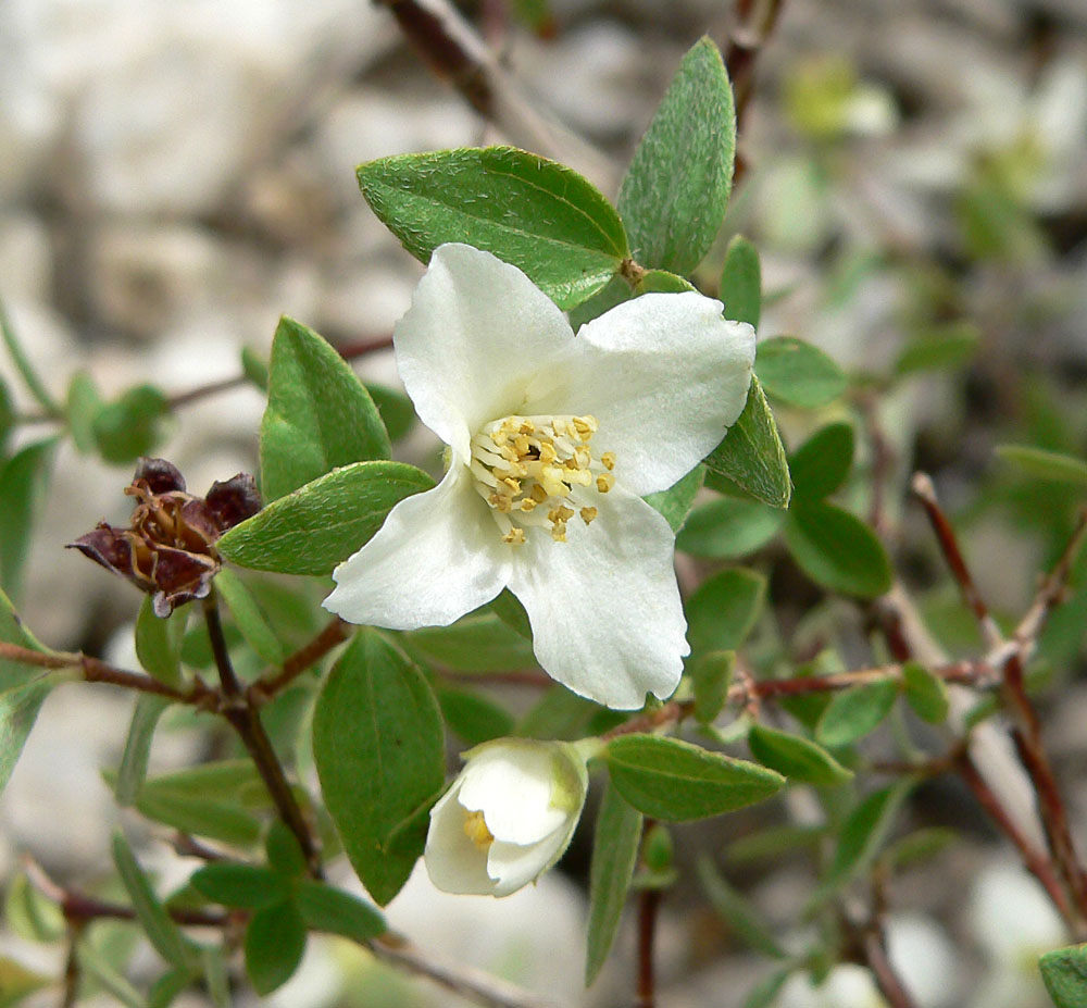 Philadelphus microphyllus on the North Loop trail east of Mummy Mountain, Spring Mountains, southern Nevada (elev. about 2900 m)